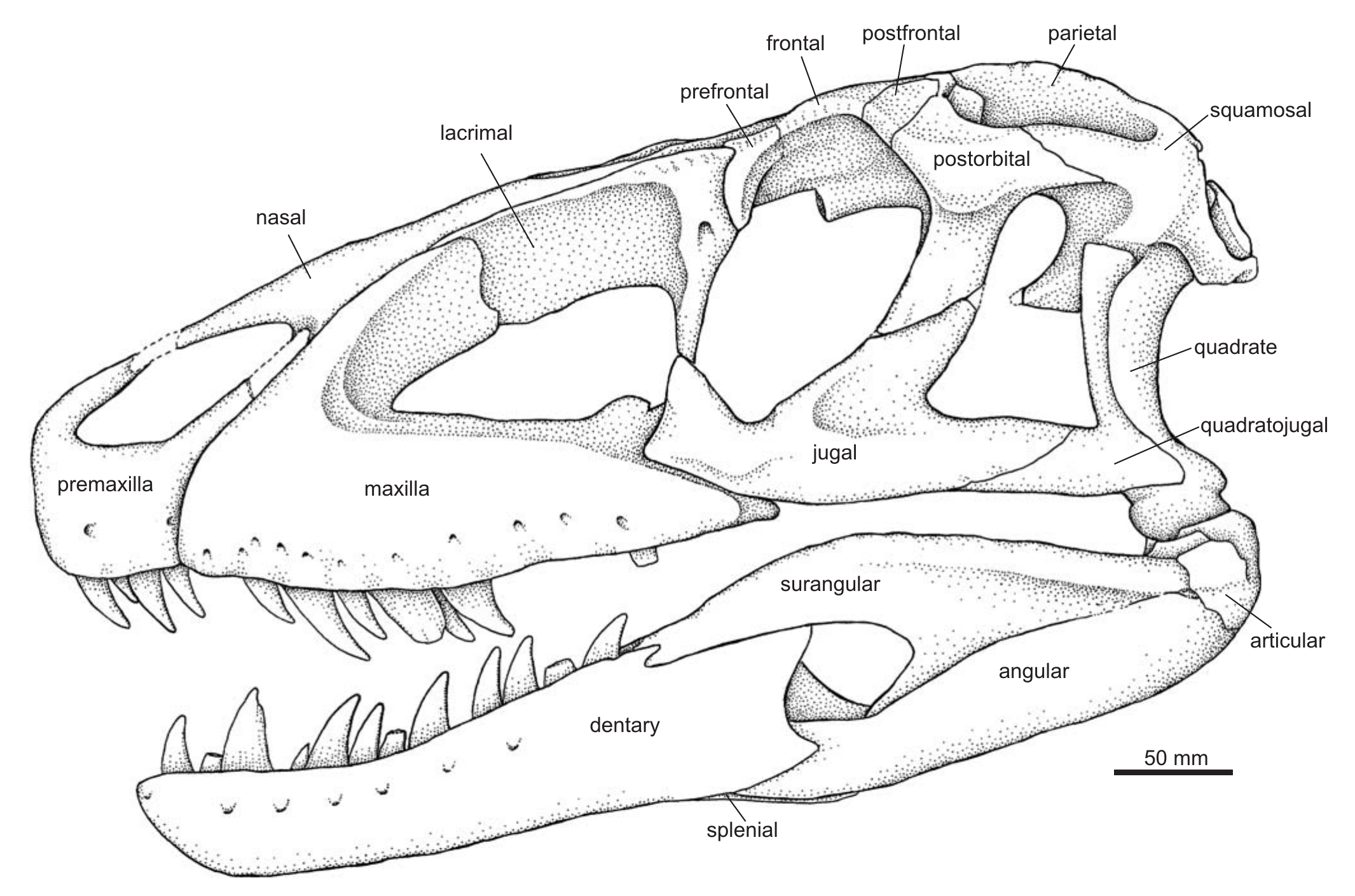 Reconstruction of the pseudosuchian archosaur Prestosuchus chiniquensis Huene, 1938 (UFRGS-PV-0629-T) from the Dinodontosaurus Assemblage Zone, Ladinian, Middle Triassic, Dona Francisca municipality, Rio Grande do Sul State, Brazil; skull in lateral view